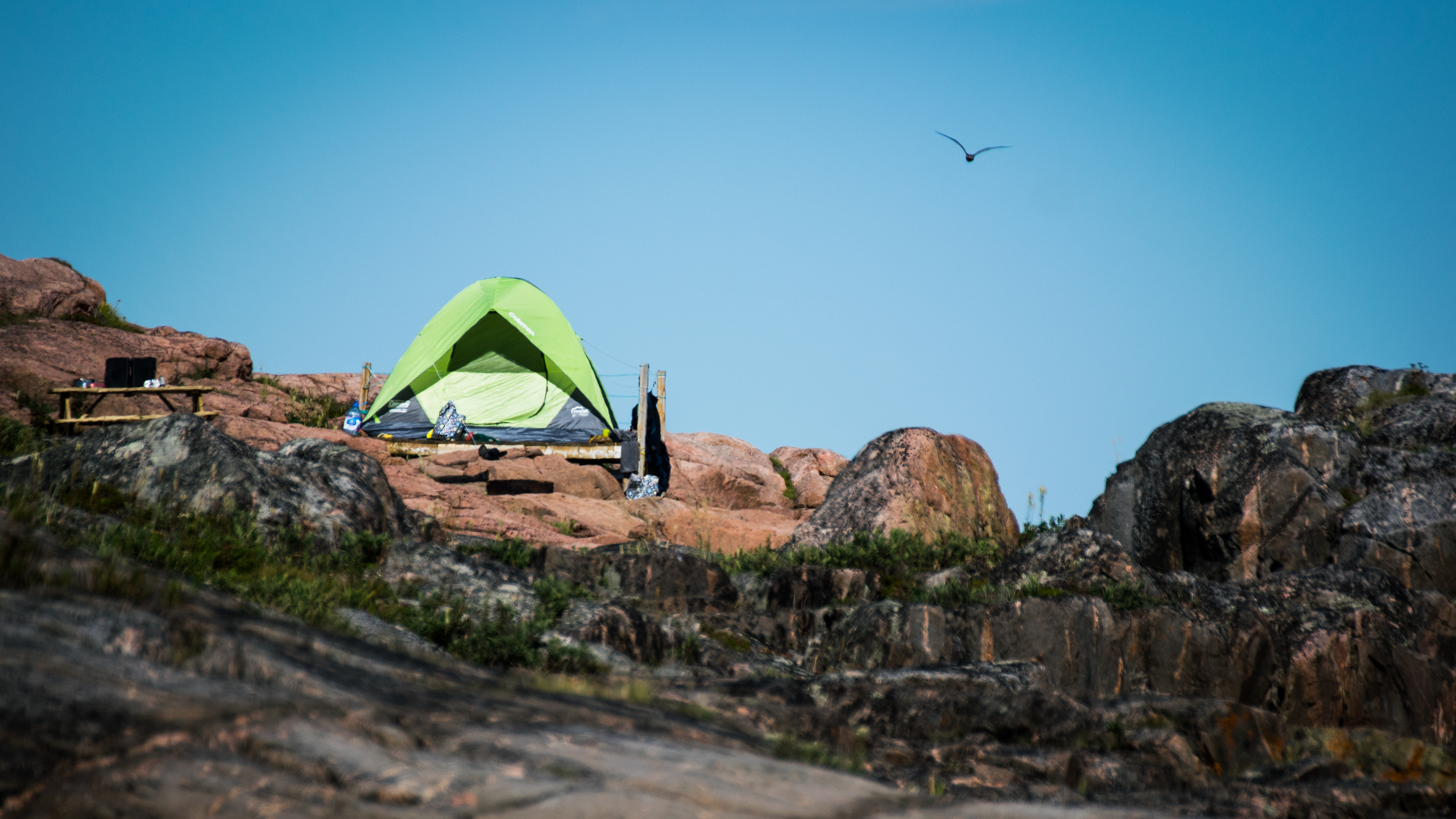 A tent tied to rocks on the top of the bank of the Saint Lawrence River, near Les Bergeronnes (Quebec, Canada).